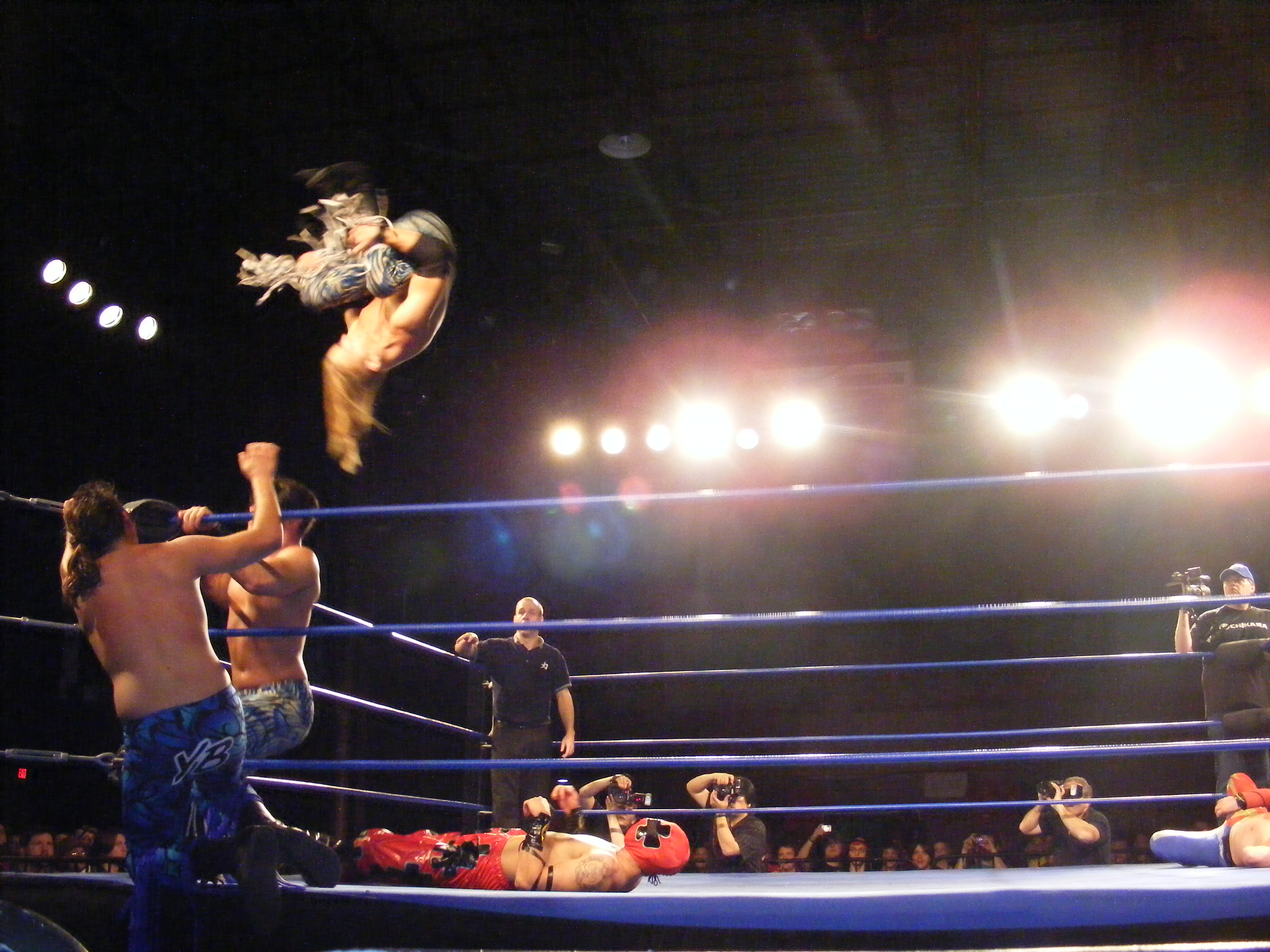 Professional wrestler Nick Jackson performing a 450 splash at a Chikara show on April 23, 2010.